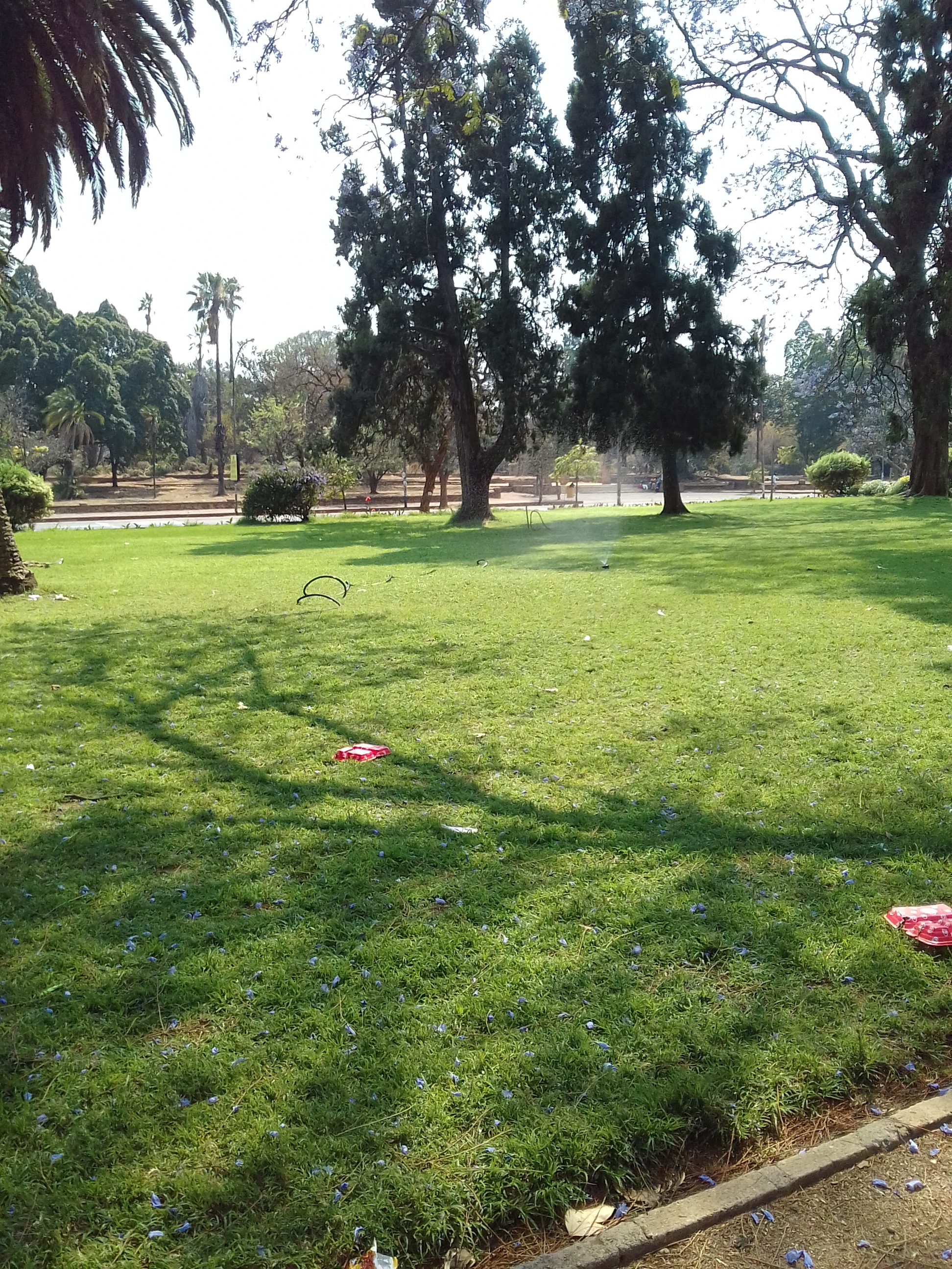 Bulawayo centenary Park This is an image of music and dance from Zimbabwe